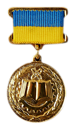 Medal of winner of Ukraine State Prize in Science and Technology